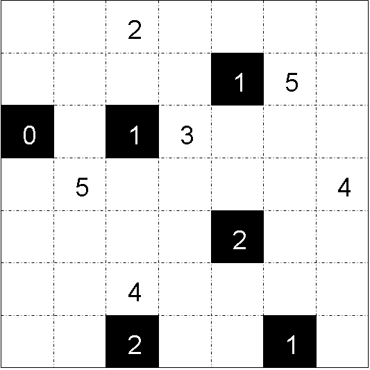 Tatebo-Yokobo grid